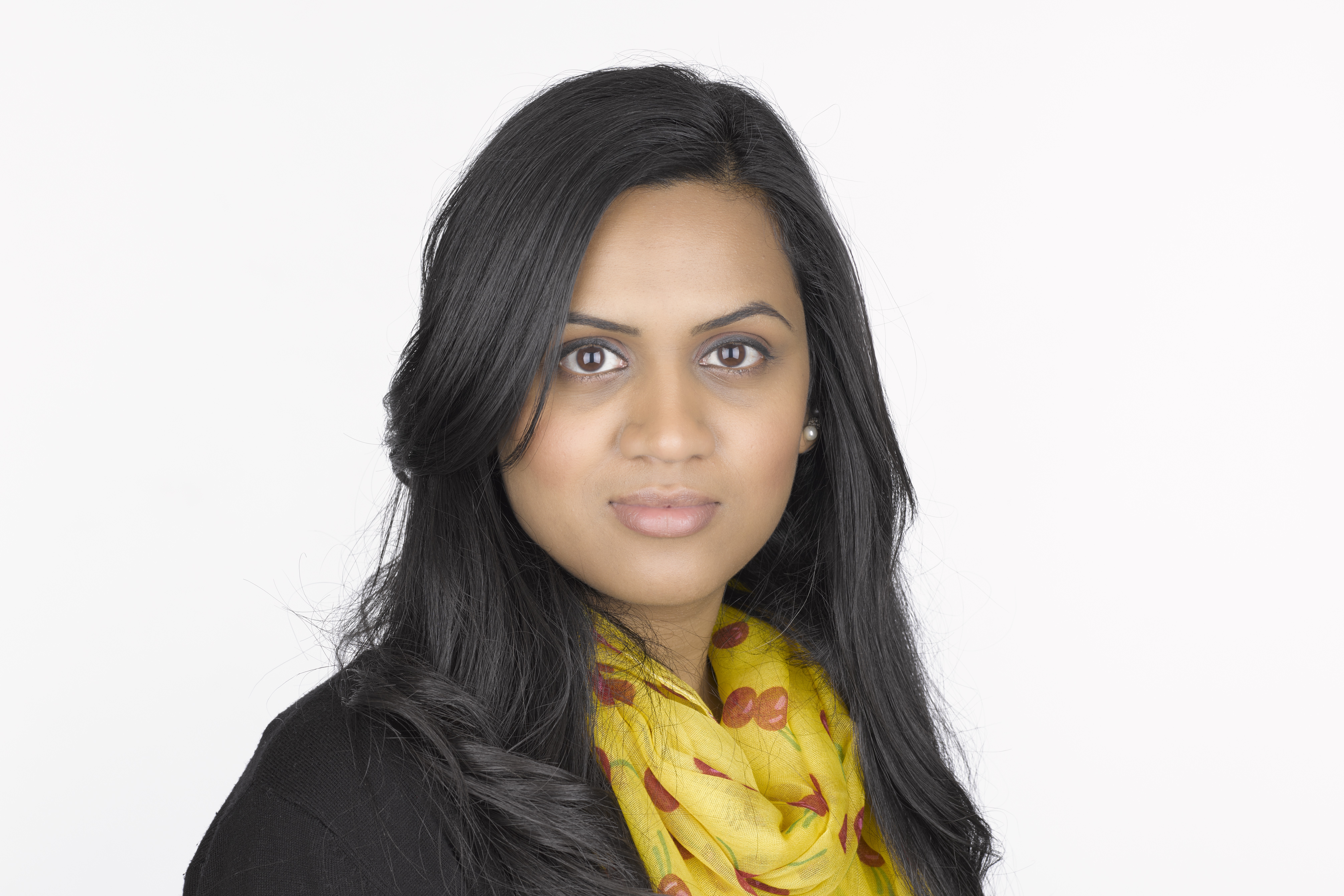 Jaz Rabadia portrait